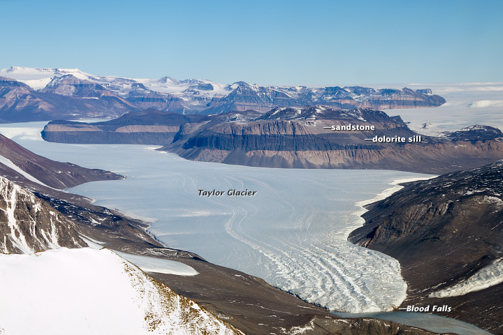 While flying over Antarctica aboard a P-3 aircraft in November 2013, Operation IceBridge project scientist Michael Studinger took this photograph (top) of Taylor Valley, one of Antarctica’s unique dry valleys. Home to Taylor Glacier, striking rock outcrops, and Blood Falls, the valley is one of the most remote and geologically exotic places in the world. While ice and snow covers most of Antarctica, Taylor Valley and the other dry valleys are conspicuously bare. Inland mountains—the Transantarctic Range—force moisture out of the air as it passes over, leaving the valley in a precipitation shadow. The lack of precipitation leaves dramatic sequences of exposed rock. In both the satellite image and photograph, the tan bands are sandstone layers from the Beacon Supergroup, a series of sedimentary rock layers formed at the bottom of a shallow sea between 250 million and 400 million years ago. Throughout that period, Earth’s southern continents were locked into the supercontinent Gondwana. The dark band of rock that divides the sandstone is dolerite (sometimes called diabase), a volcanic rock that forms underground. The distinctive dolerite intrusion—or sill—is a remnant of a massive volcanic plumbing system that produced major eruptions about 180 million years ago. The eruptions likely helped tear Gondwana apart. The dominant feature in the photograph—Taylor Glacier—is notable as well. Like other glaciers in the Dry Valleys, it is “cold-based,” meaning its bottom is frozen to the ground below. The rest of the world’s glaciers are “wet-based,” meaning they scrape over the bedrock, picking up and leaving obvious piles of debris (moraines) along their edges.€